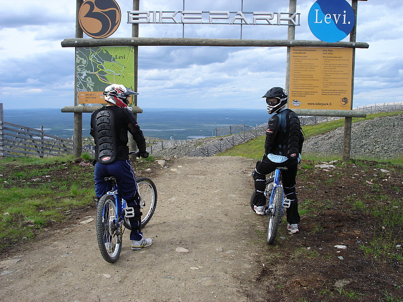 Levi - Bike